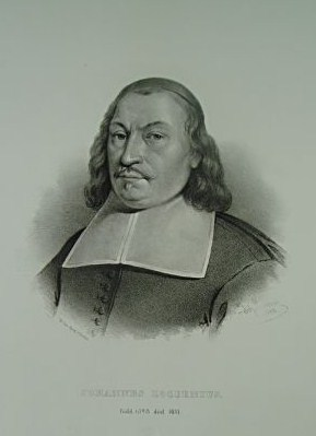 Lithograph of Johannes Loccenius (1598 – 1677), was a German-Swedish jurist and historian.